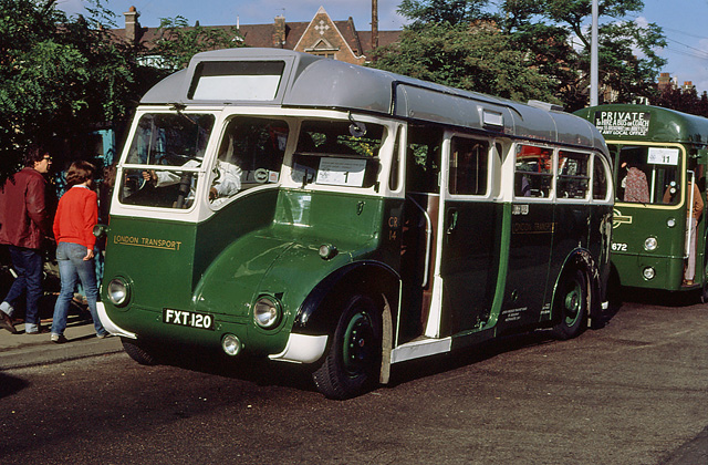 Leyland CR Taking part in the Greenline 50th Celebrations at Golders Green bus station in 1980 is a rear engined Leyland Cub of 1939 vintage. These vehicles saw brief service with London Transport, the country ones being allocated to Windsor garage. Behind is an RF, a type that saw extensive service as buses and Greenline Coaches. Further information regarding the CR's and other London Transport types can be found on the web at Ian's Bus Stop.